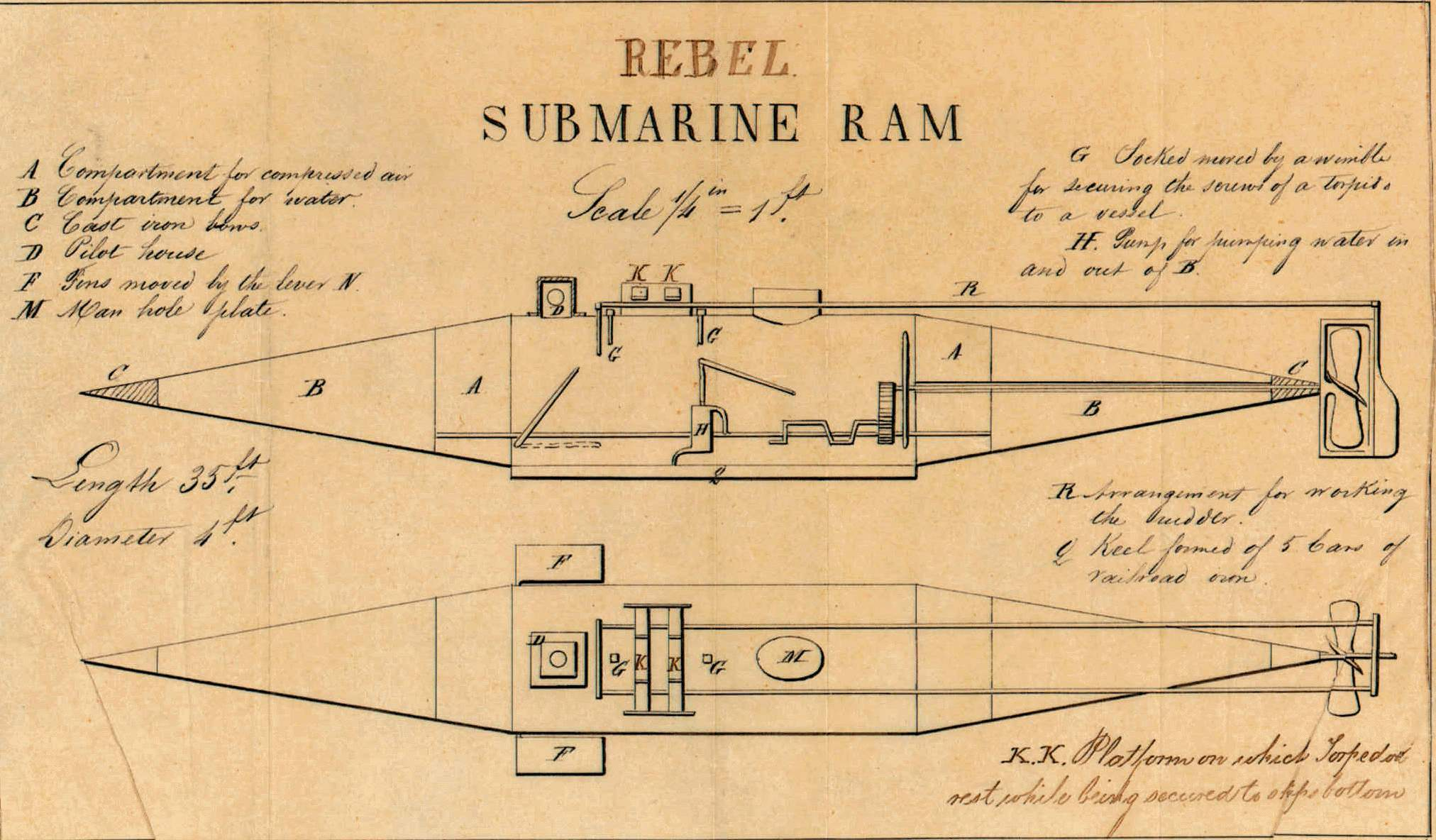 The Confederate submarine Pioneer's measured drawings given to William Shock, Fleet Engineer of the Western Gulf Blockading Squadron in 1862.